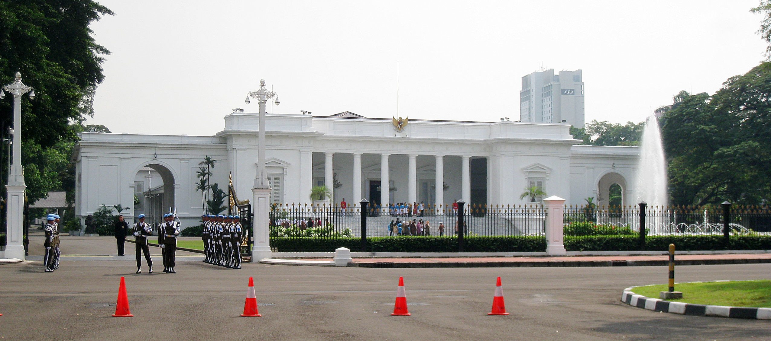 Changing guard of Merdeka Presidential Palace, Jakarta, Indonesia.